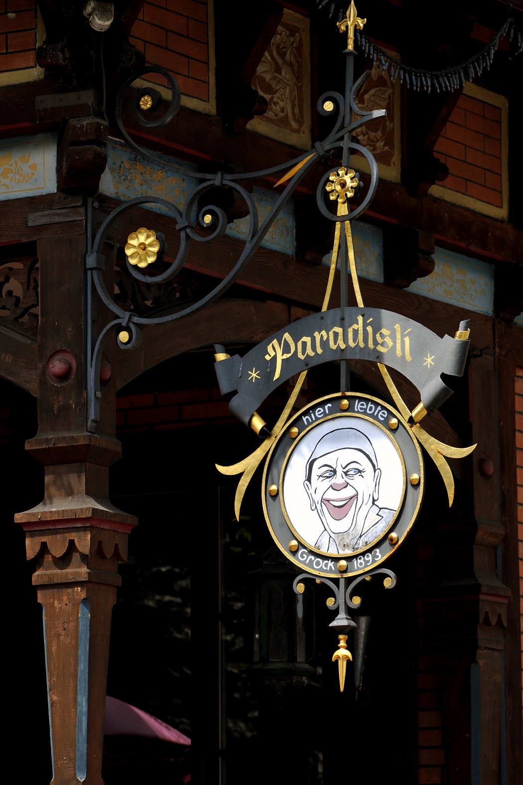 Restaurant «Paradisli» in Biel, inn sign showing clown «Grock»; Berne, Switzerland.